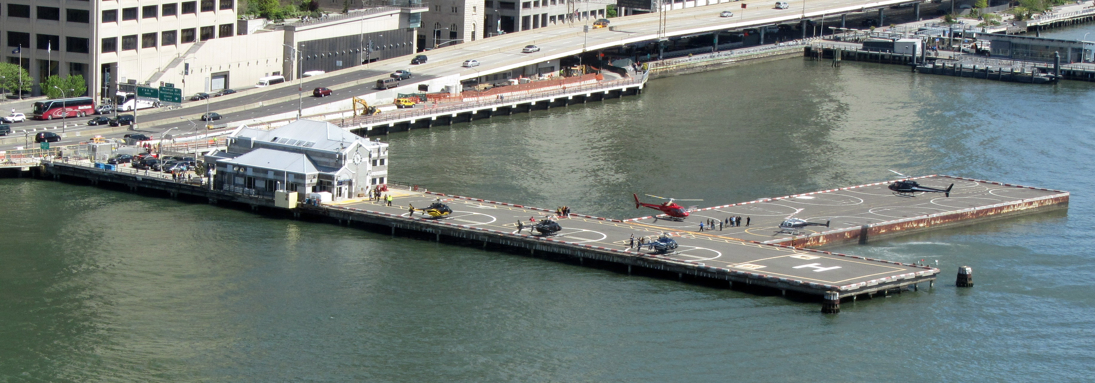 Downtown Manhattan Heliport